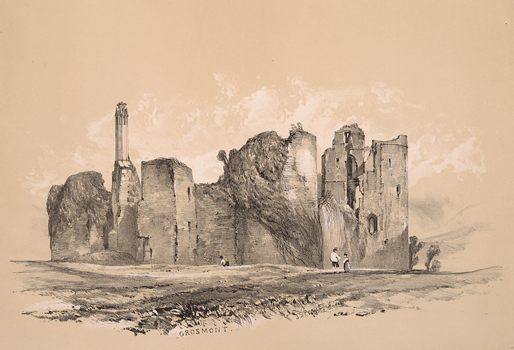 A view of the ruins of Grosmont Castle, with people standing outside the castle.